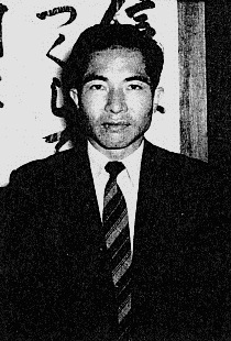 Saneyoshi Furuken